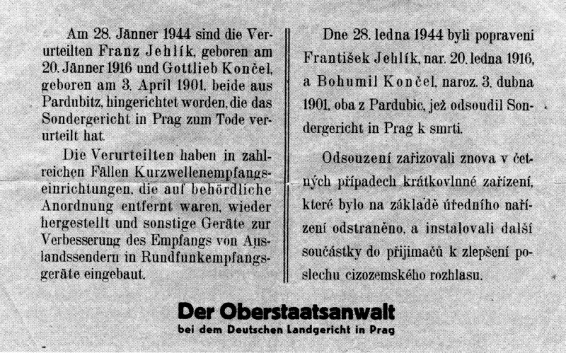 Notification of the German occupation administration of the execution of two Czechs, who had improved radio receivers for listening to foreign broadcasts